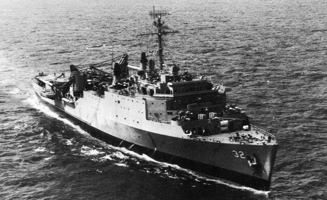 The U.S. Navy Thomaston-class dock landing ship USS Spiegel Grove (LSD-32) underway in the Caribbean, in 1965.